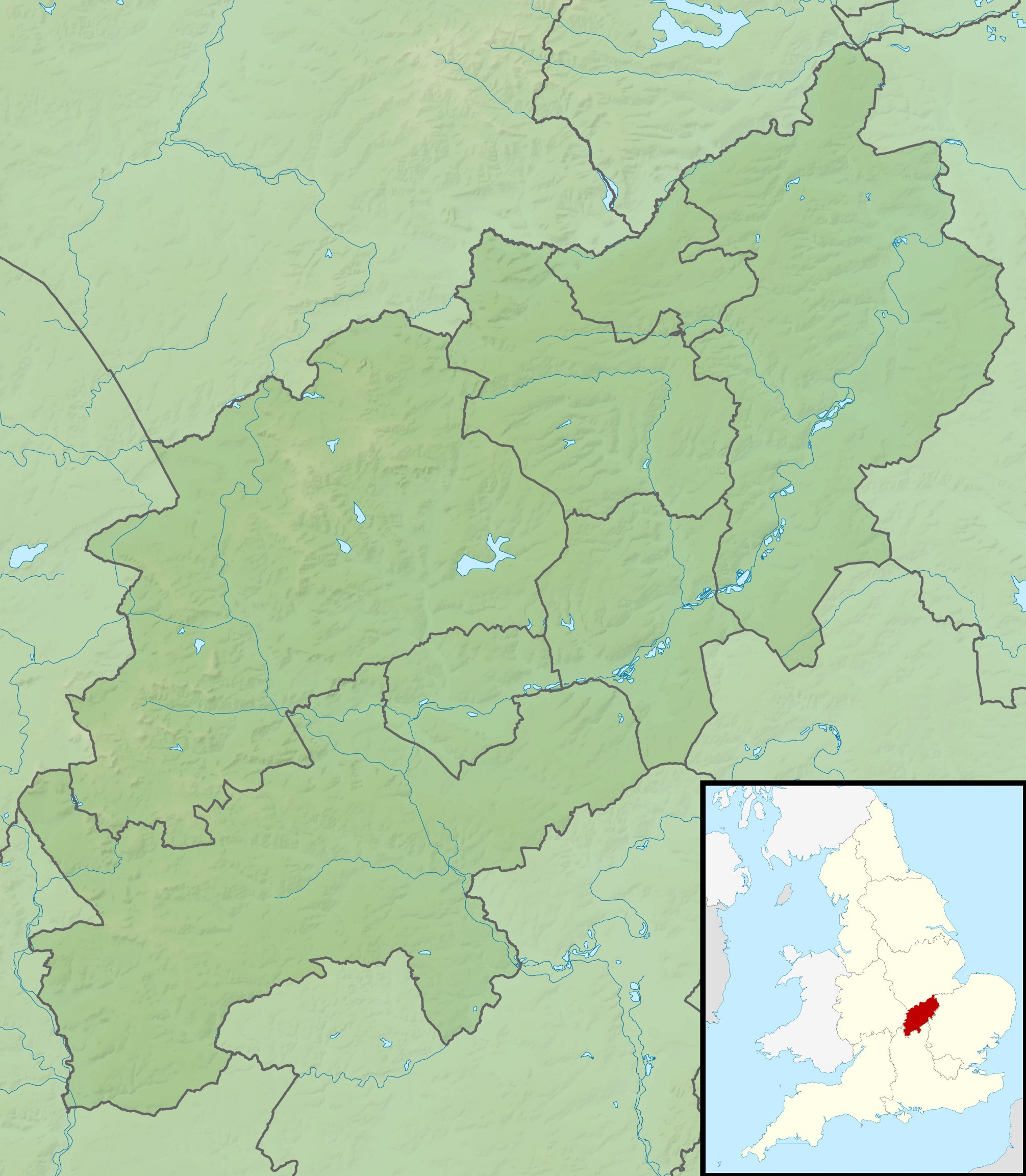 Relief map of Northamptonshire, UK. Equirectangular map projection on WGS 84 datum, with N/S stretched 160% Geographic limits: West: 1.35W East: 0.33W North: 52.67N South: 51.94N